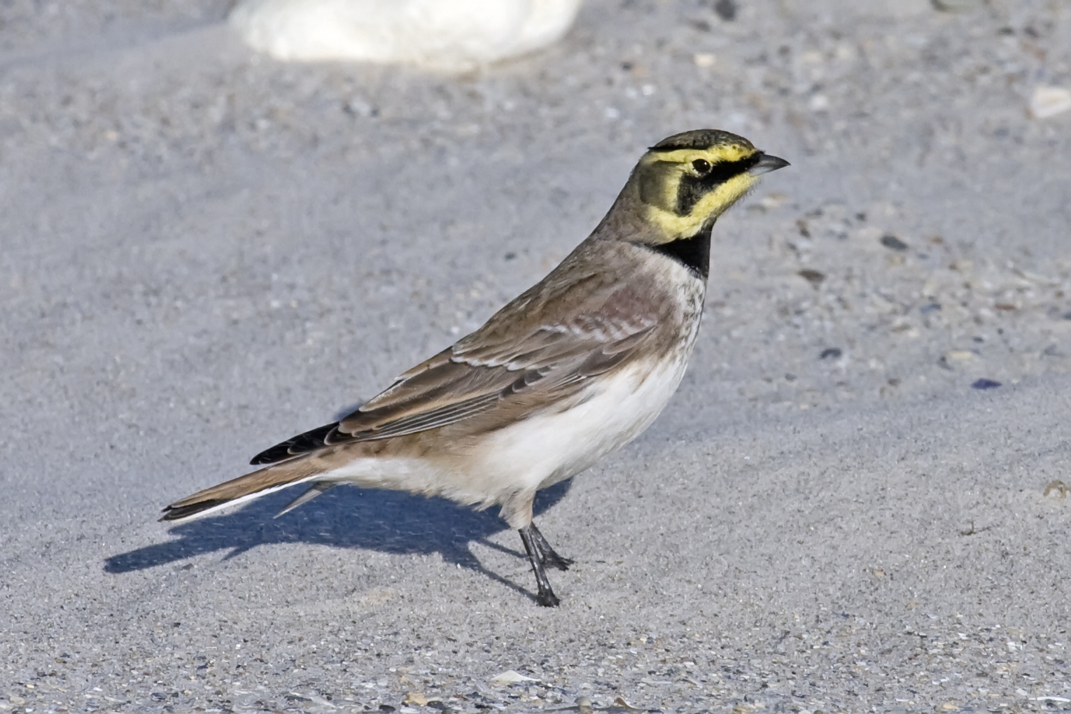 Shore Lark